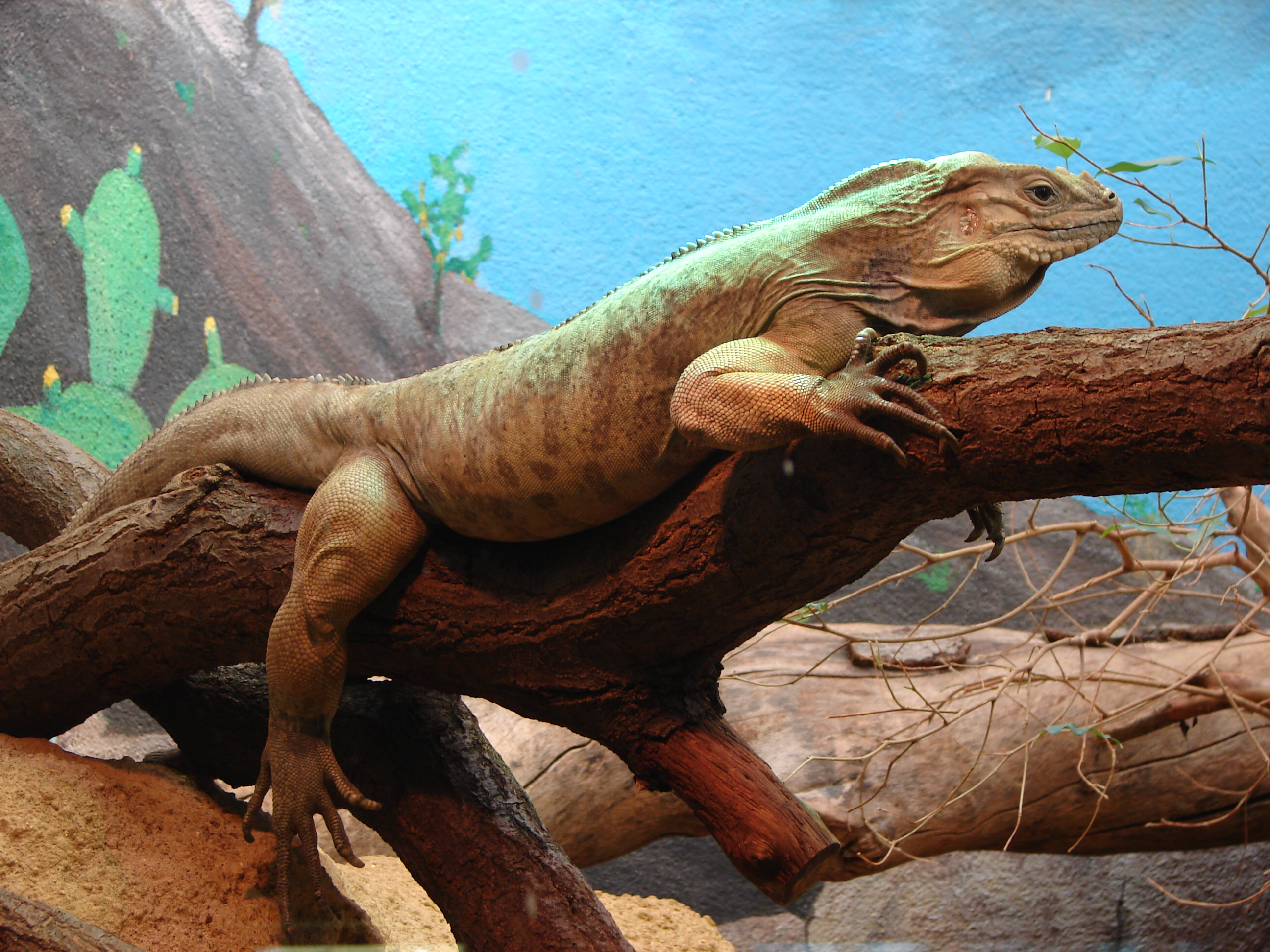 Images from London Zoo. Location: NW1 4RY